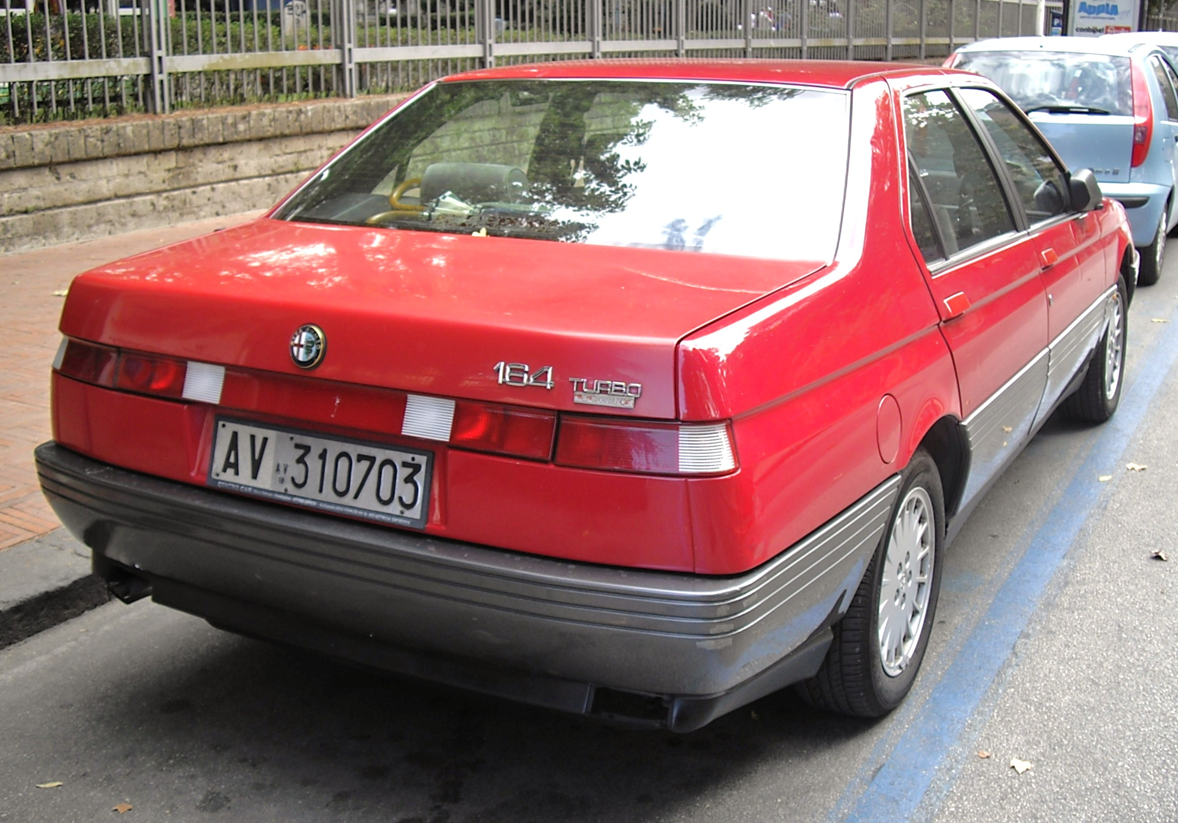 Alfa Romeo 164 Turbo